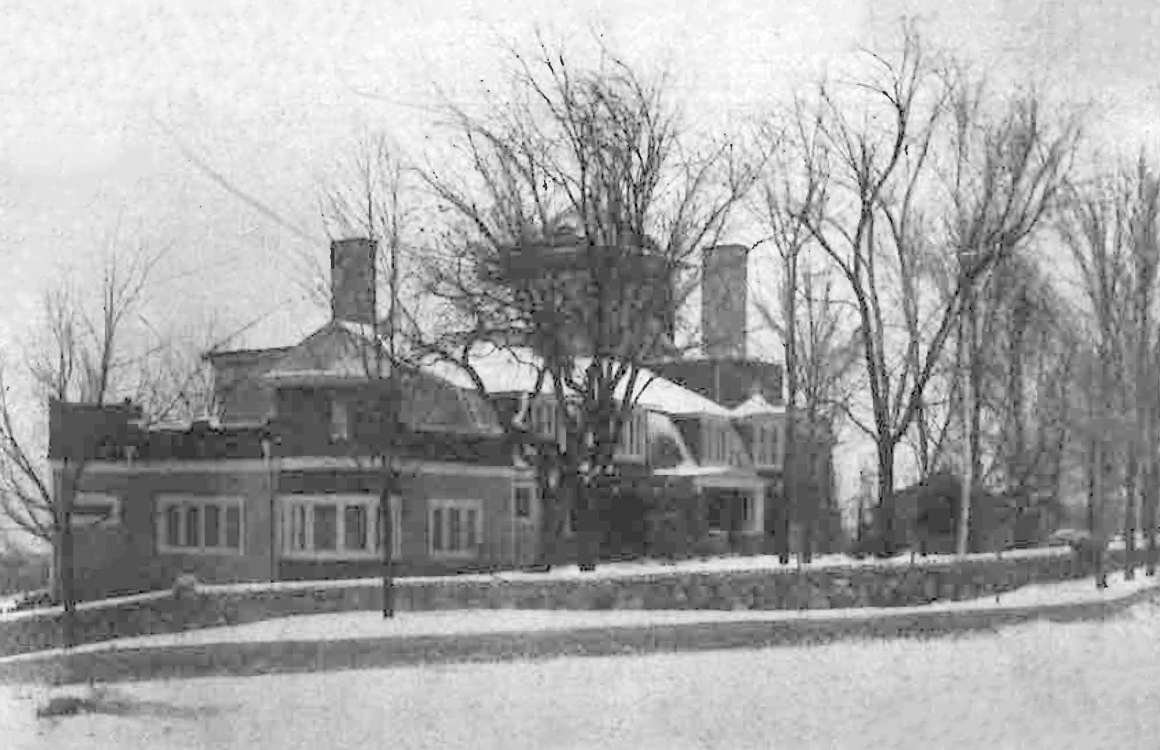 Looking northeast from the intersection of Biship Road and Ridge Road in Wickliffe, Ohio, at Cobblestone Garth, the country home of Feargus B. Squire. Finished about 1903, the Victorian-style home featured a rubble masonry tower (with a distinctive lighthouse motif) to the east, and a rubble-masonry gatehouse. The home was torn down some time after 1932, although the tower and gatehouse remained standing as of 2015.